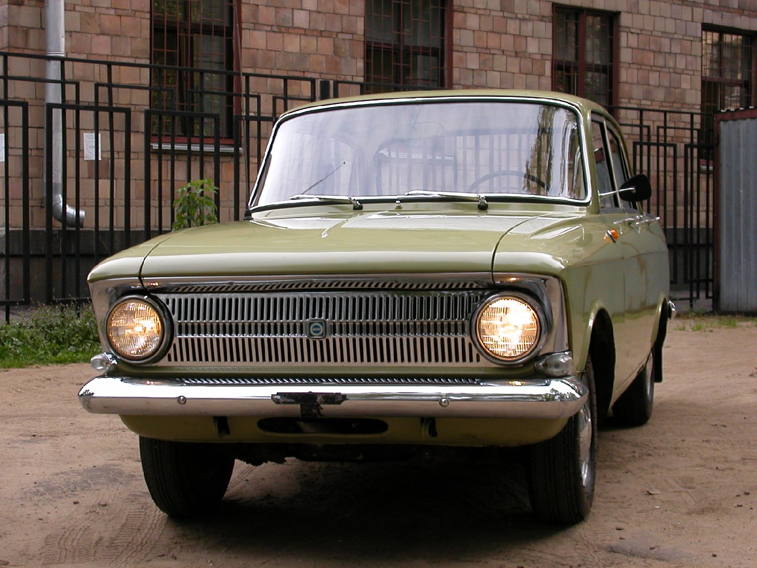 IZH Moskvitch-412IE, built in 1974